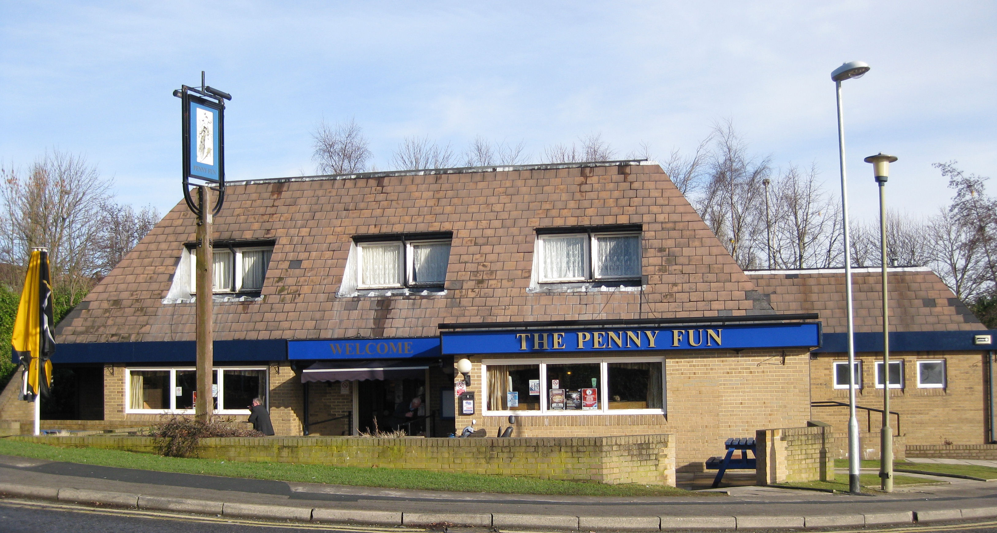 Penny Fun public house, Moor Allerton Centre, Moortown, Leeds LS17 5NY